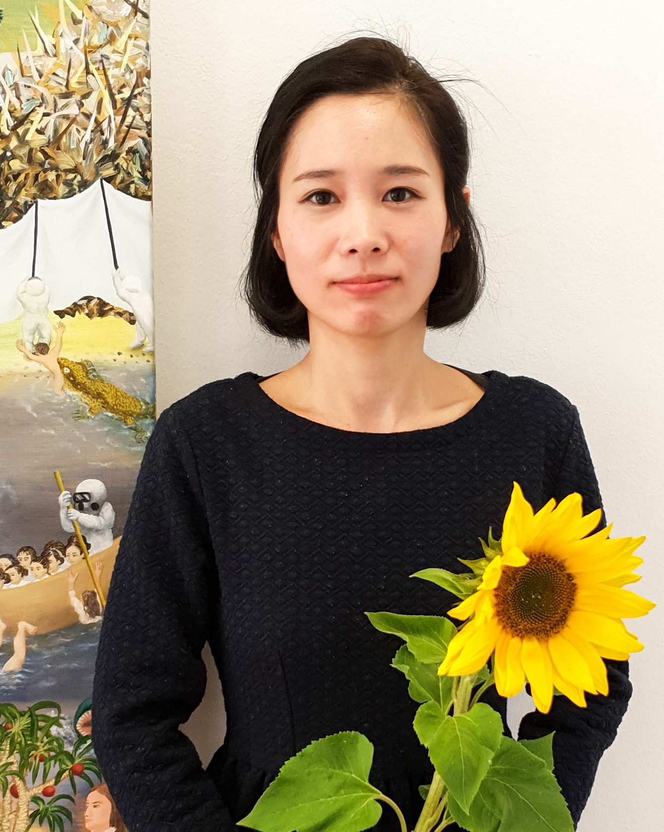 Haruko Maeda at 422 gallery in Gmunden, Austria (2019)